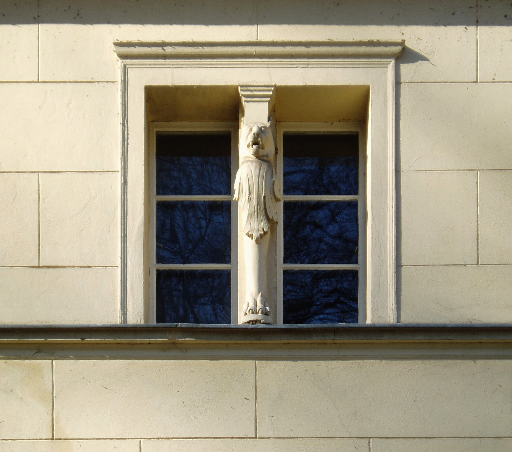 Mezzanine window with lion support at Court ladies wing, Glienicke castle, Berlin, Germany